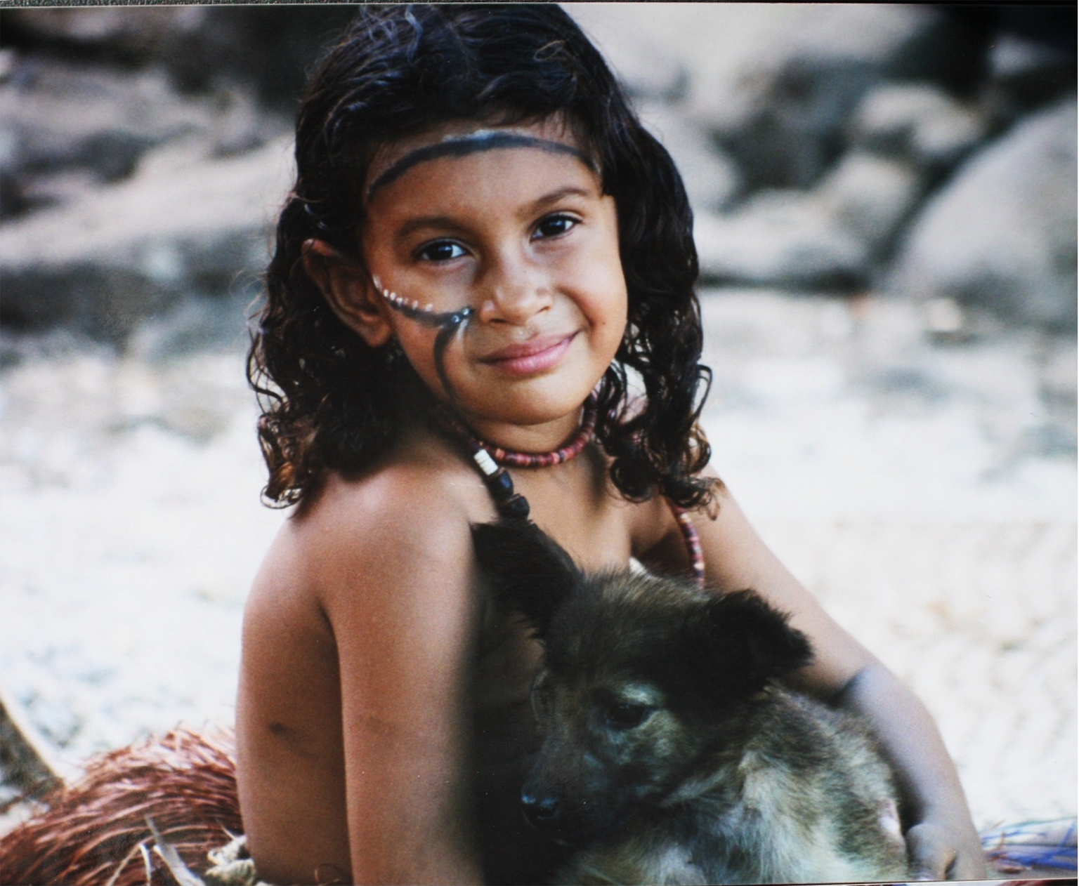 A girl with a dog at Island of Wagifa in Papua New Guinea.